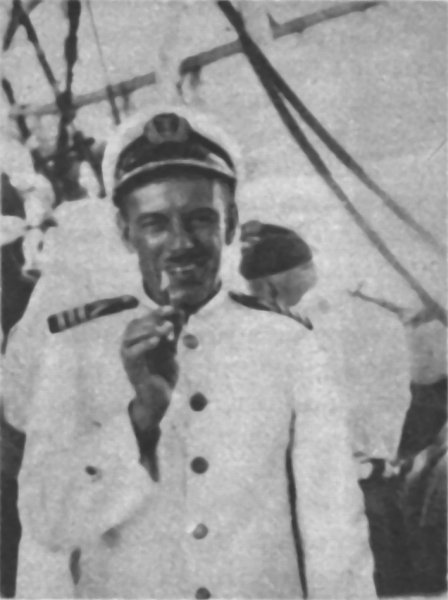 Captain Konstanty Matyjewicz-Maciejewicz (1935)